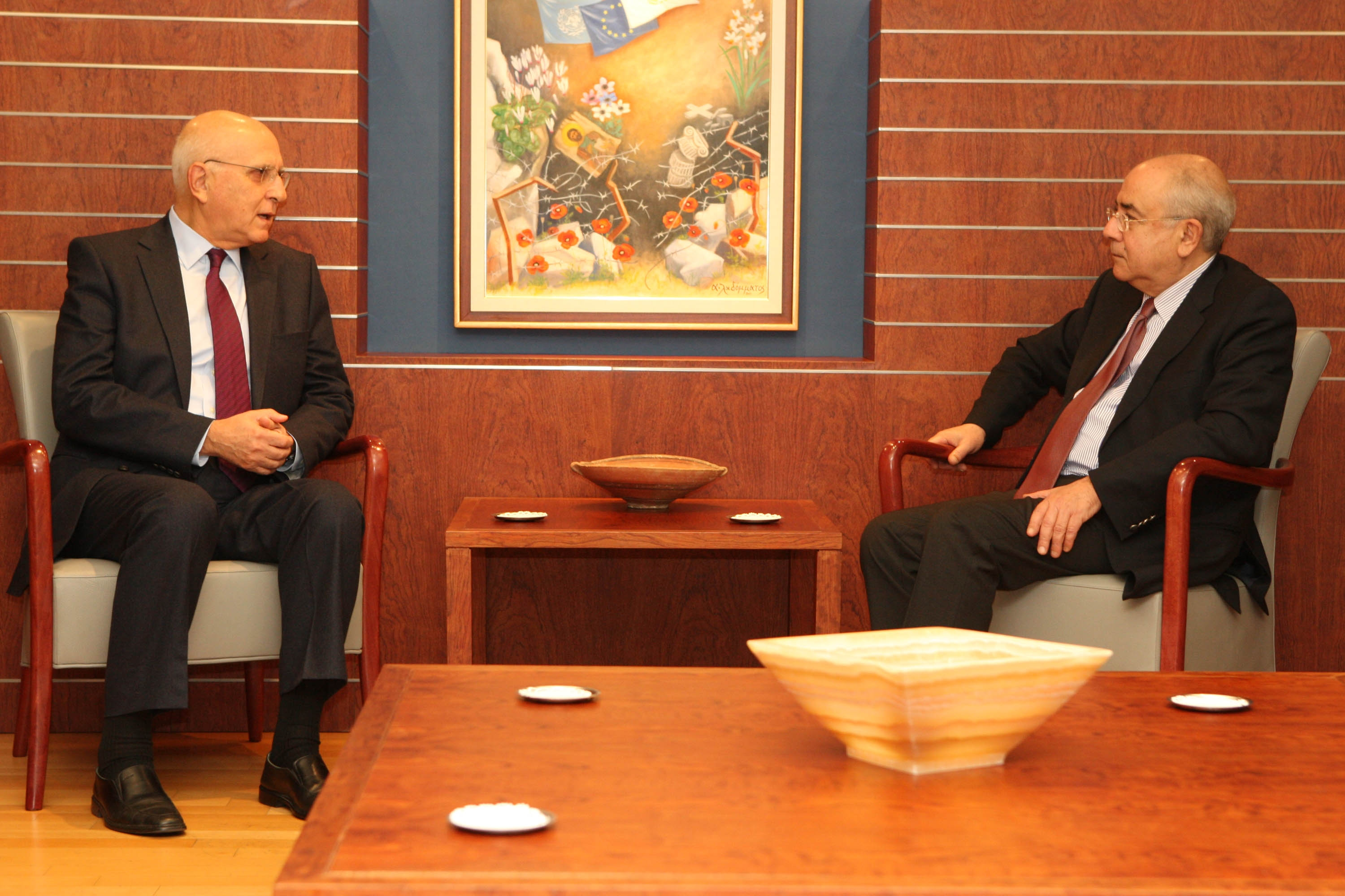 Greek Foreign Minister Stavros Dimas with President of the House of Representatives of Cyprus Yiannakis Omirou.